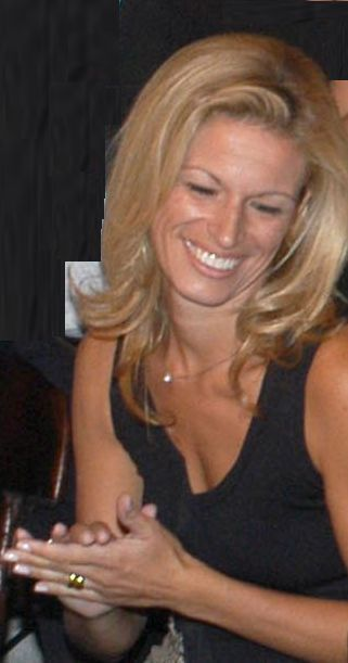 The Brazilian writer Leticia Wierchowski